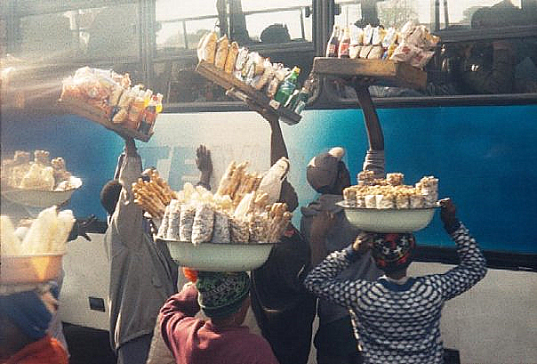 Venders selling snacks